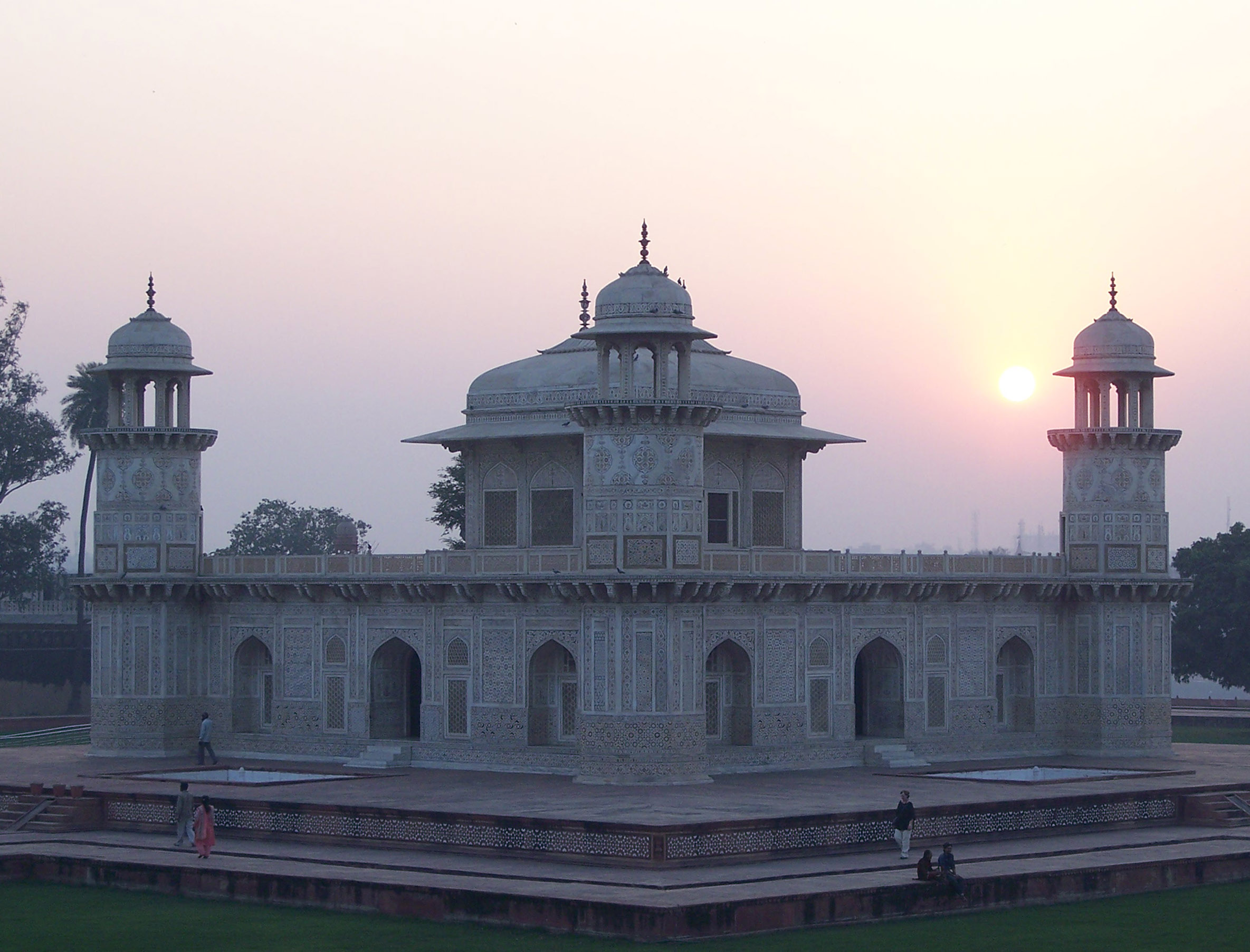 Itimad-ud-Daula, Agra, India 2011